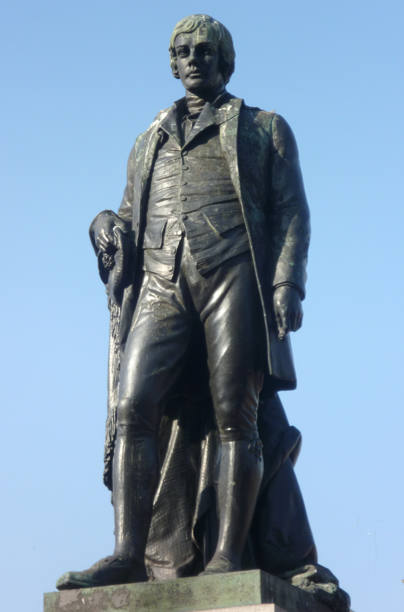 Statue by George Edwin Ewing, unveiled on 25th January, 1877